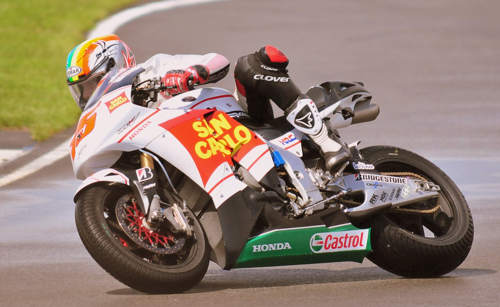 Alex de Angelis at the 2009 British motorcycle Grand Prix